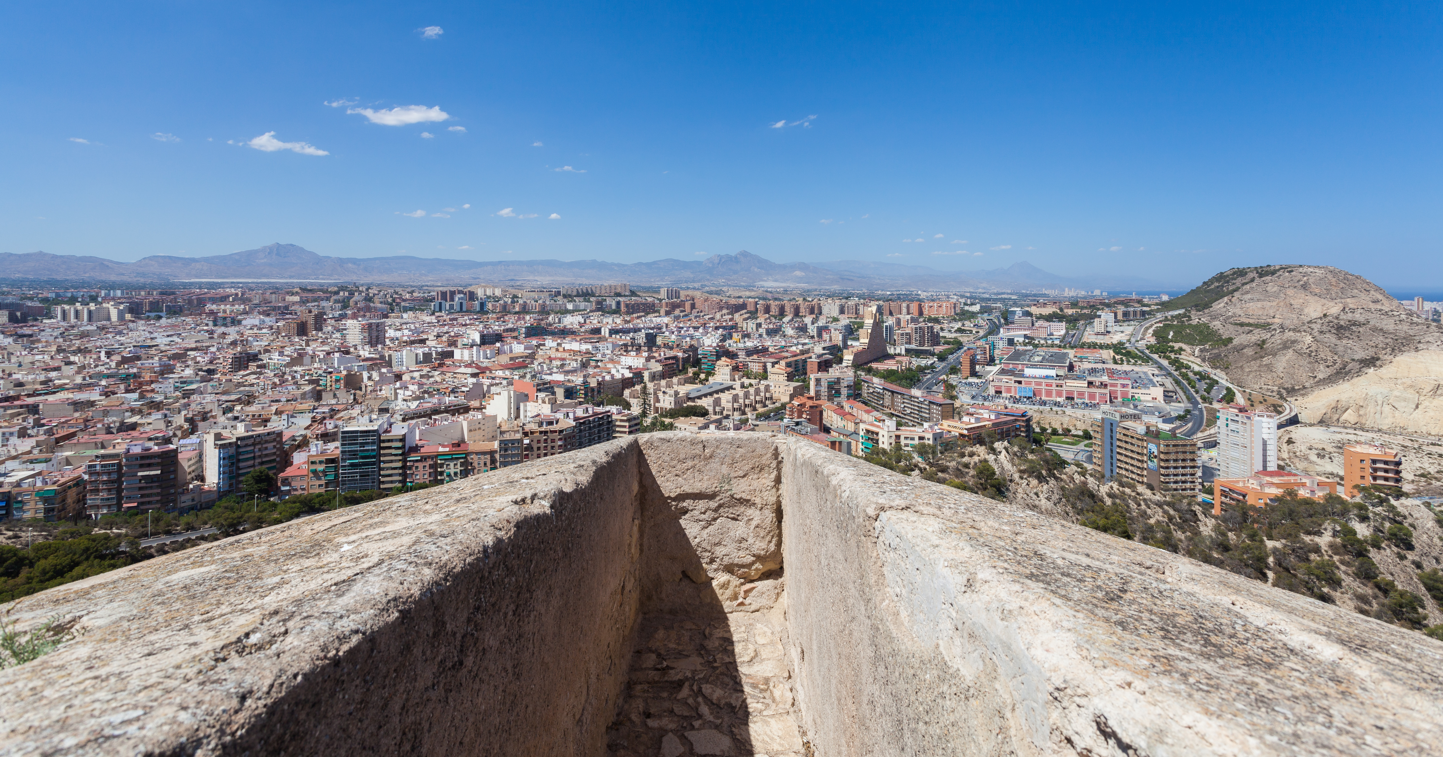 View of Alicante, Spain